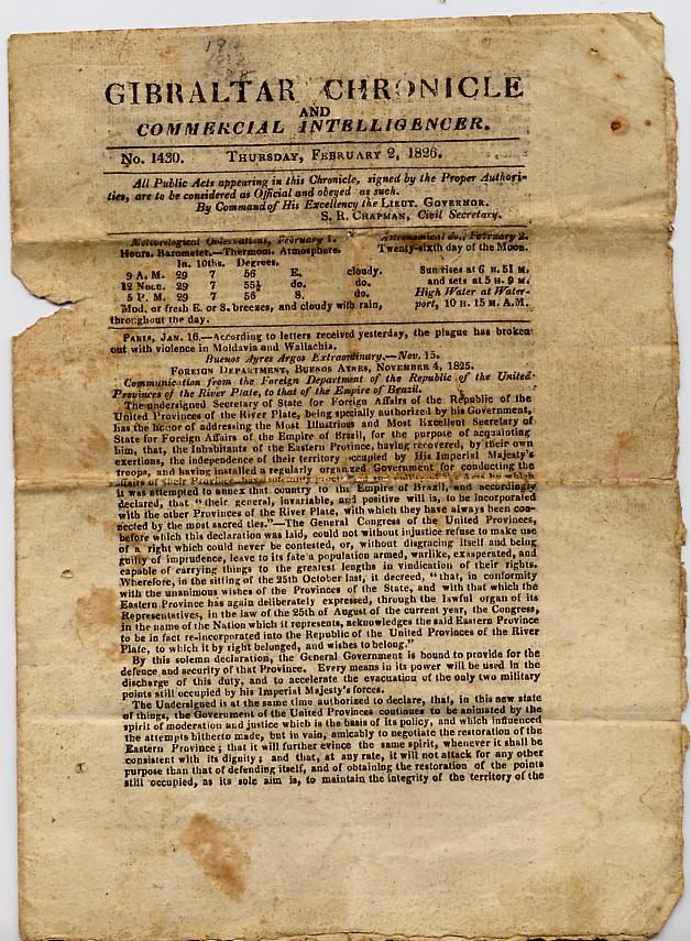 The Gibraltar Chronicle newspaper issued February 26 1826.